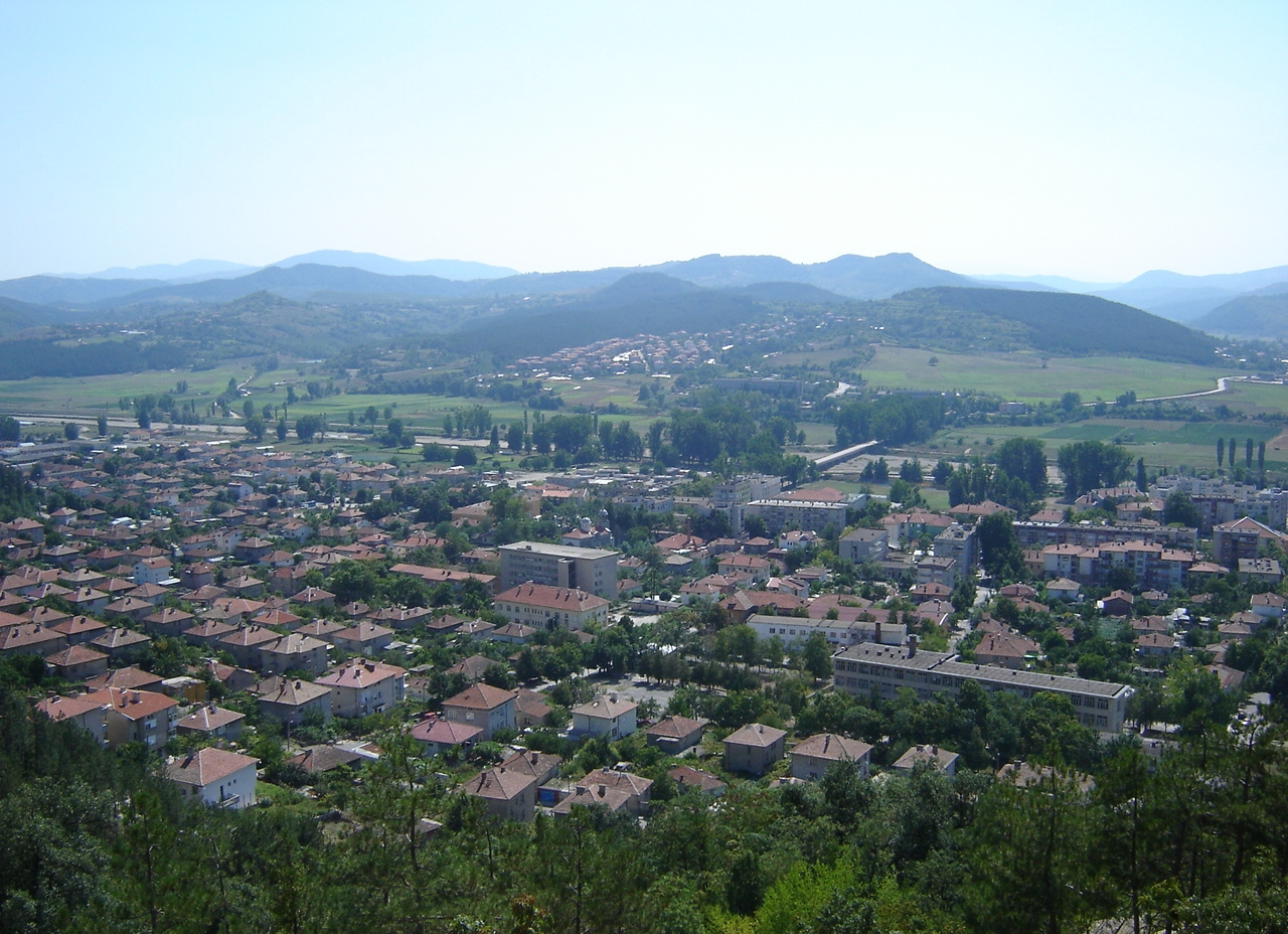 View from the hill